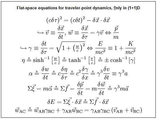 Versions of Newton's laws in (1+1)D spacetime using minimally frame-variant traveler-point variables[1] (proper time τ, proper velocity w, and proper acceleration α) designed to work at any speed in flat spacetime, and also locally in curved spacetimes and accelerated frames provided that geometric forces (like gravity and centrifugal) are approximated as proper frame-variant forces f, even though they do not have corresponding felt forces ξ detectable e.g. by a traveler's cell-phone accelerometer. Notation: The "three-line equals" (≡) flag definitions, the hooked arrows track logical implications, and the "double-arrow equals" (⇔) connect kinematic relationships to physically conserved quantities like momentum p, total energy E, and kinetic energy K. Equalities without the superposed circle (i.e. = or ≡ instead of o) also work for the corresponding 3-vector[2] and scalar quantities in (3+1)D.